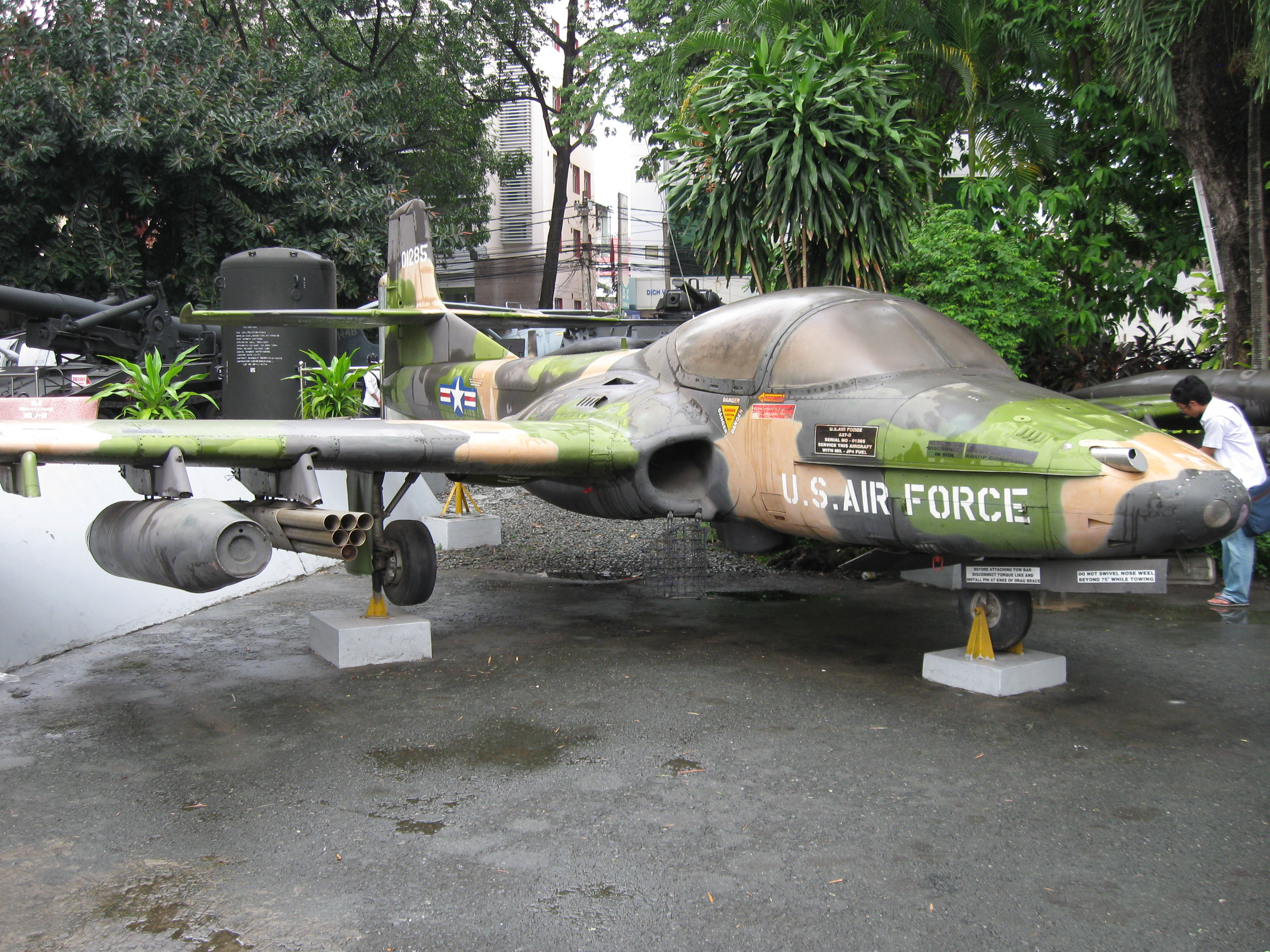 A former U.S. Air Force Cessna A-37B Dragonfly (s/n 70-1285, c/n 43300), used in the Vietnam War. It was passed on to the South Vietnamese Air Force as "287". In 1975 it was taken over by the Vietnam People's Air Force "09". It is today on display at War Remnants Museum, Ho Chi Minh City, Vietnam (the markings do not represent any USAF markings).